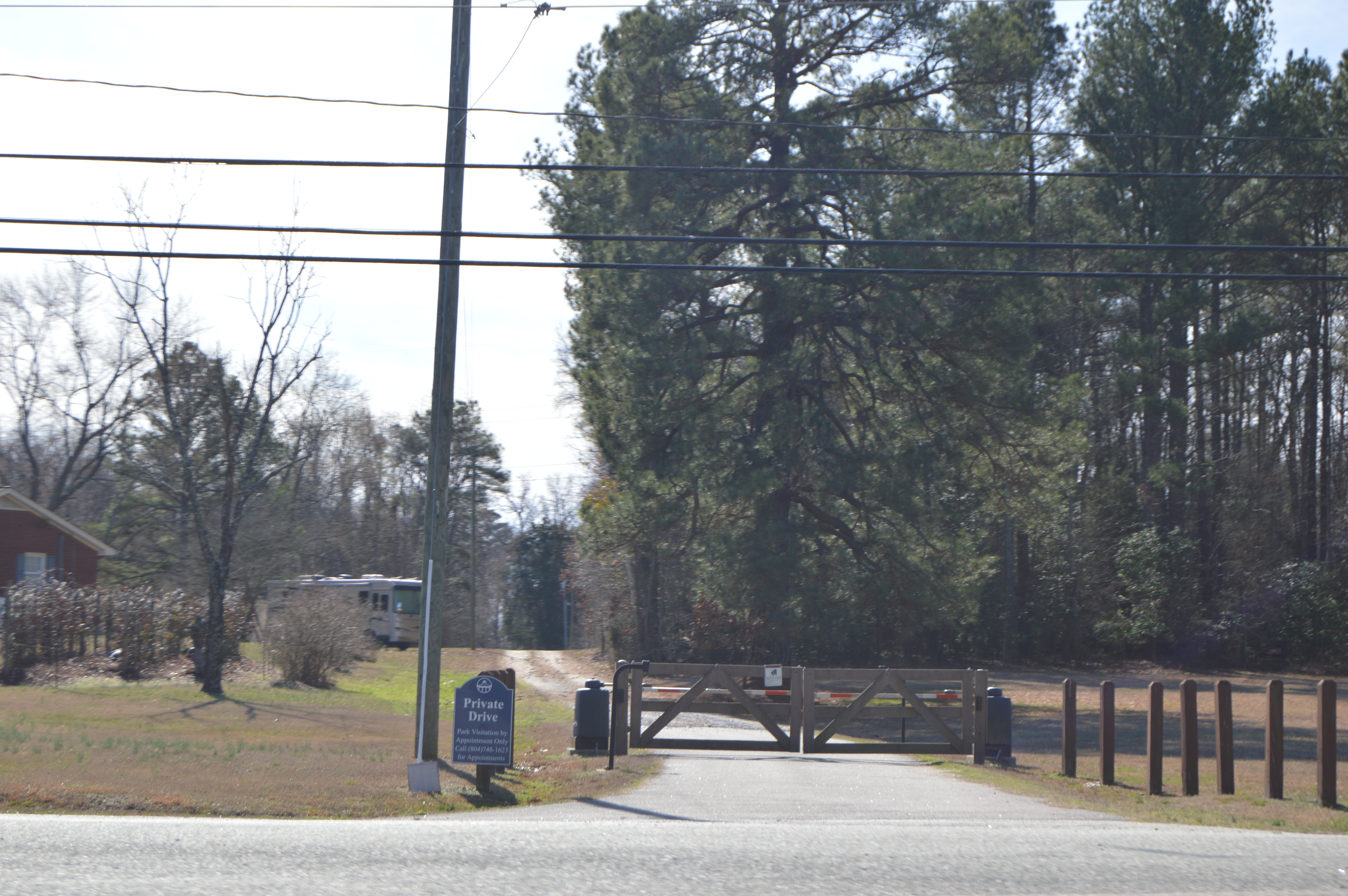 Driveway to Point of Rocks, located off Enon Church Road just southwest of central Enon in Chesterfield County, Virginia, United States. The estate is listed on the National Register of Historic Places.